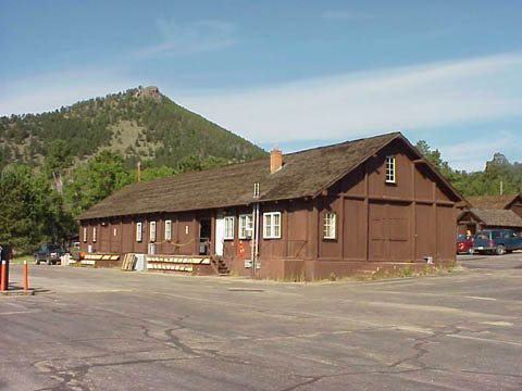 Side of a warehouse in the Rocky Mountain National Park Utility Area Historic District, located on the Beaver Meadows Entrance Road (U.S. Route 34) west of Estes Park in the Larimer County portion of Rocky Mountain National Park in the U.S. state of Colorado. Built in 1923, it is listed on the National Register of Historic Places.